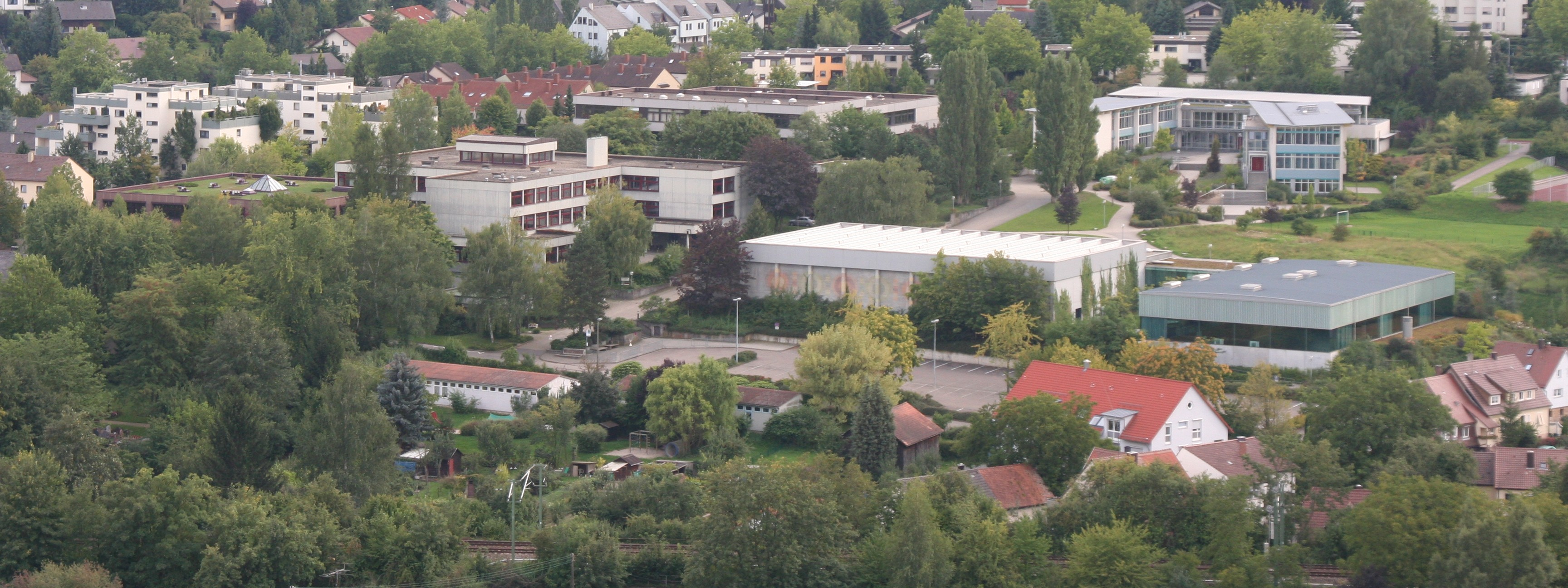 The school centre Rossäcker in Weinsberg